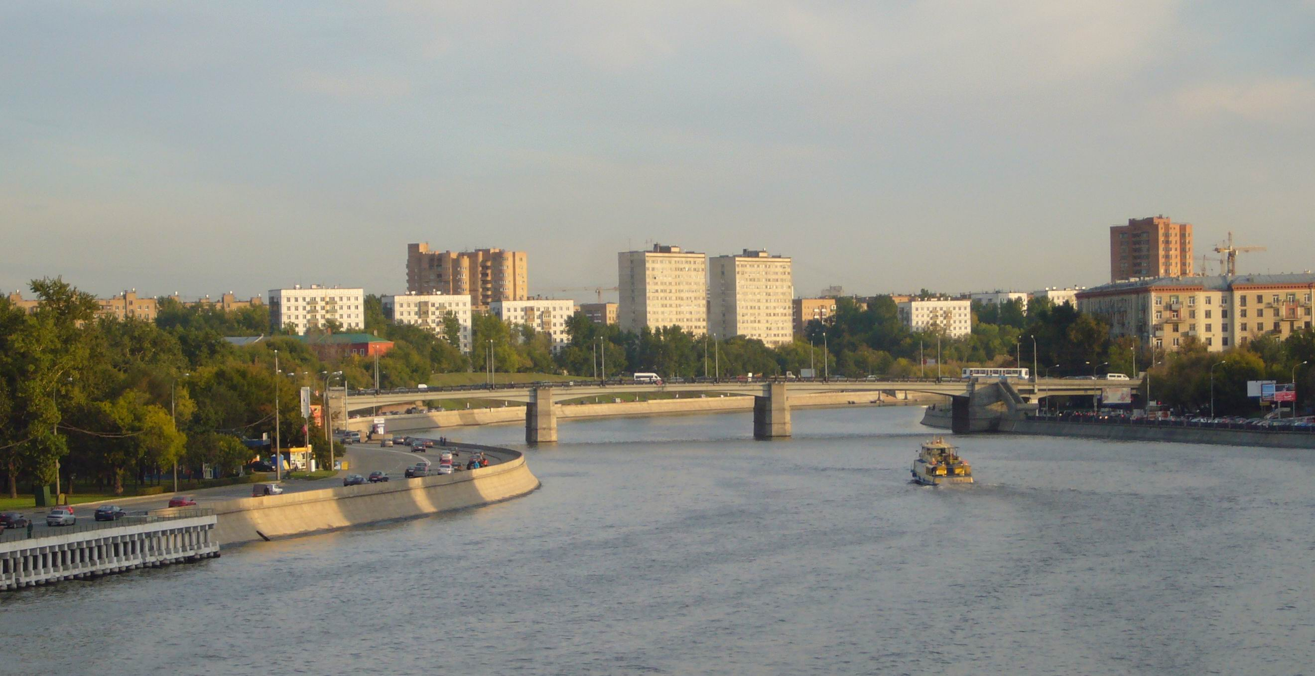 Novospassky Bridge, Moscow, Russia